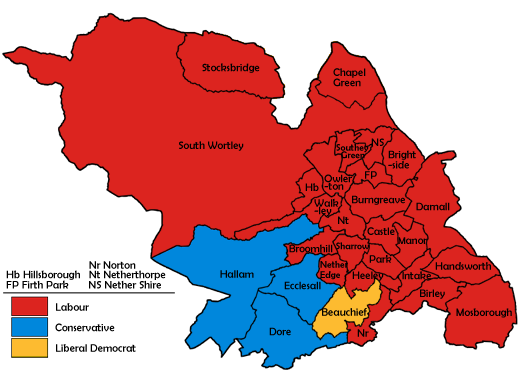 Ward map of Sheffield Council with political colouring for the 1990 election.